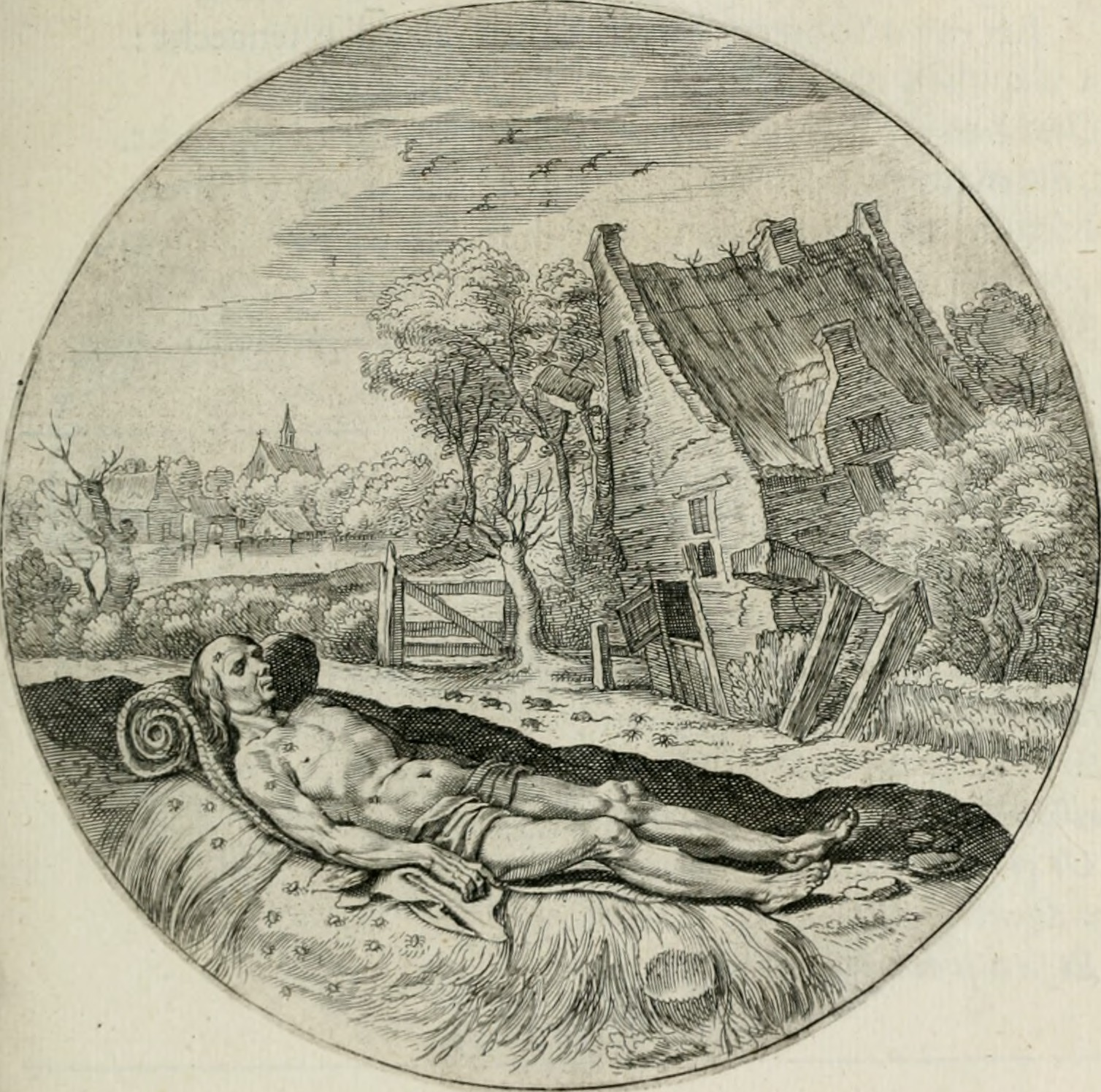 Title: Iacobi Catzii ... Silenus Alcibiades, sive Proteus: Year: 1618 (1610s) Authors: Cats, Jacob, 1577-1660 Subjects: Emblems Publisher: t'Amsterdam : By W. Blaeu Text Appearing Before Image: demuy/en.Als smenichen lichaemfterftj verloopen vloon enluylenjDe fpincop, alstghebou ftaet omdaerheen tellaen,Packt ras haer netten op, en kieft de ruyme baen.Een lichaem vol verdriets, vol armoed, en ellende^Bn wert niet aengheranft van Venus dertel bende, Daert vet is brant haer toorts : door weelde^ geit, en goct,Wert Venus lufl verwed:, en liefdes vier ghevoet. Cedit Amorniiferis. N On petit exitnimi de came fediculus efcam,t^orjïbus haudijexat corpus inane pulex,Etfugiunt mures ^ (^ aranea contraint orbemy St qua ruinofo culnjme teSïa labant.Tlebilihus lafciva ca fis Cytherea reccdit^Ejfugit è m^Sïo lubrica Üamma thoro.Stulte fuùido laces 3 ubi cor dolor anxitis trrit:^7\(V f-uaieant hommes ^ Jlulte (jipïdo jaces. L Ou neH lieJÏe ^ ^mour ny frejjc. *Aragne va fuiant de maifon ruineufe, Les pous de lhomme mort. Lors quant lame efl piteufe^,Venus na nul pouvoir : au corps delfai(5t & lasLe feu 6c ieu dAmour ne sy addrelTent pas. CEDIT NEMO DOLENS PATET LIBIDINI. loi L. Text Appearing After Image: f^j§ N S Lieven loî Lieven doet leven » ICk lagh als doot int graf, ick was als ionder leven,Eer my u Soon en Son, ô Venus, hadd ghenaeckt :Sijn vleughels gaf u Soon^ uSon gaf my het leven- Dies ben ick van een romp , een lèvent dier ghemaeckt.Ick, die maer was een flouf, ben gheeftich op-ghei-treken, Ick, die mt duyfter lagh , vliegh ftaegh ontrent het licht,Ick, die croop, als een worm, hoe ben ick op-ghefleken?Siet. wat al w^onders doet een lodderlijck gheficht. A mor elegantie, pater, T%uncm incrs ayuca jacetj ijivumque cadaver:ZJt tarnen hatic l^hœbi cal facit ig7ie juhar^^pparet niyef mox papilioni^s ïmcigo^ Etcœlii njolucrü jam nova, ^ carpit iter.rBarbamsexcolittir, facies nitet altera reru